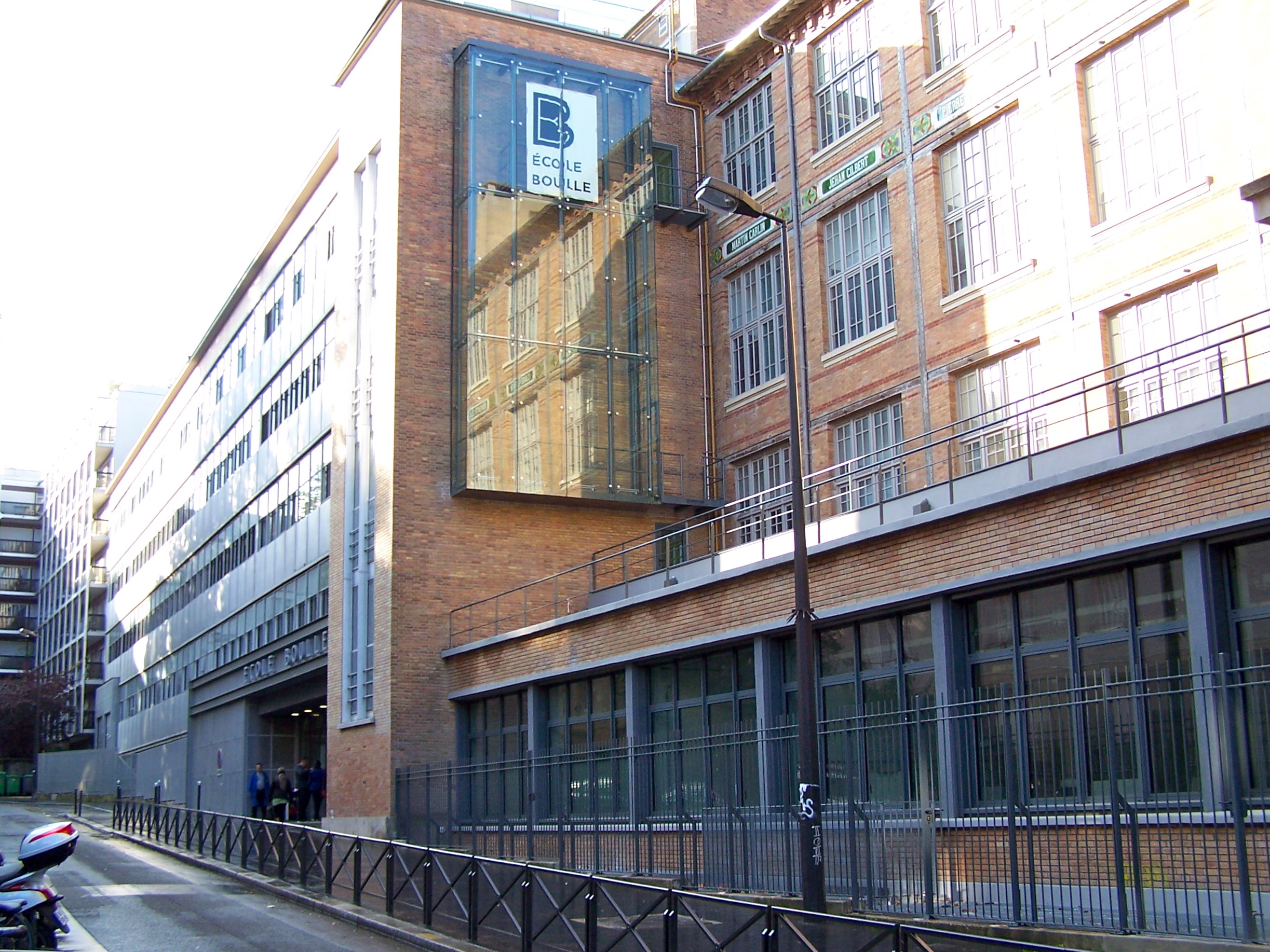 Vue de l'entrée principale de l'École Boulle, rue Pierre-Bourdan à Paris